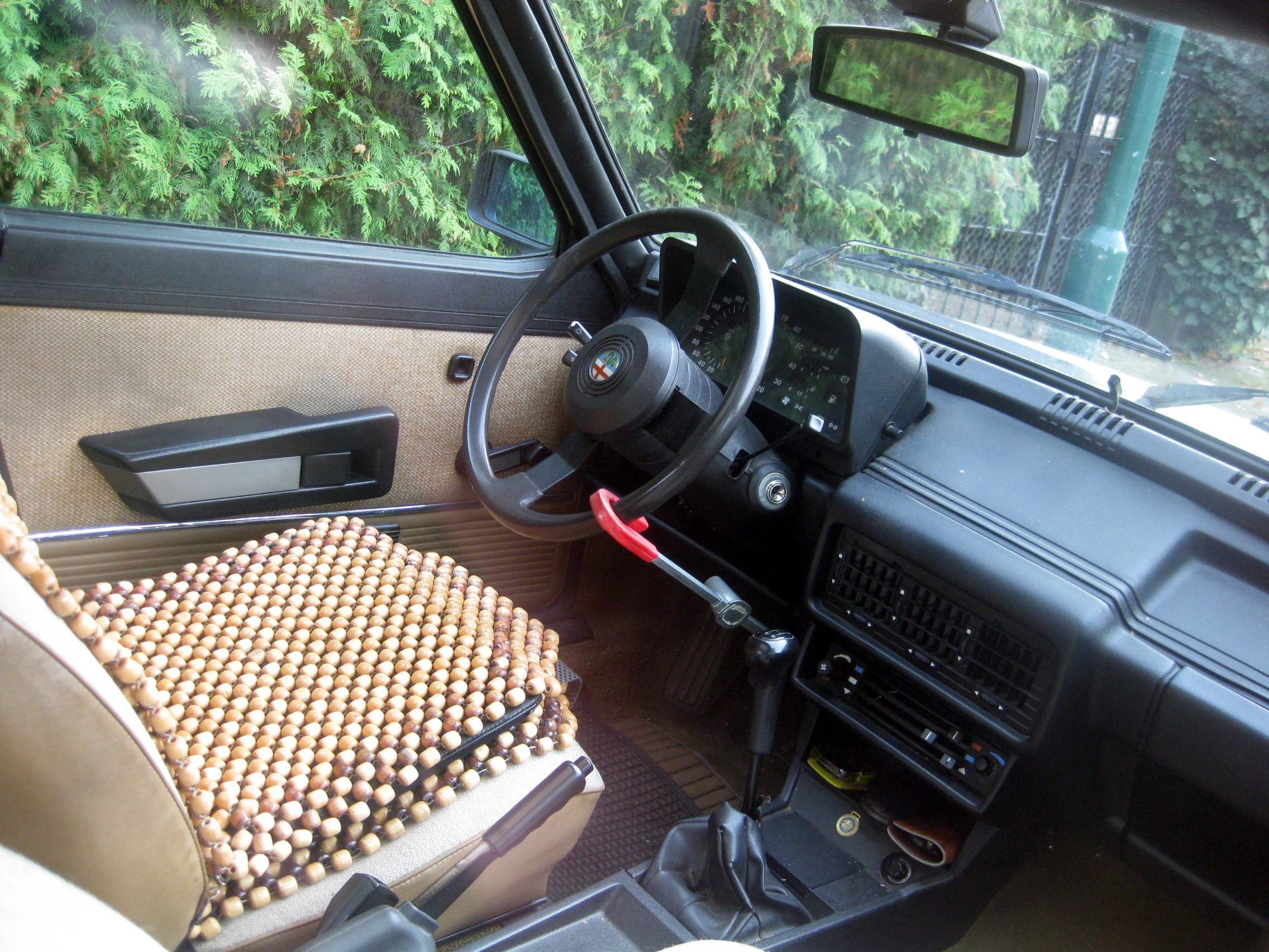 Interior of an Alfa Romeo Guilietta Nuova, still in use in unrestored condition, 2009 in Germany.